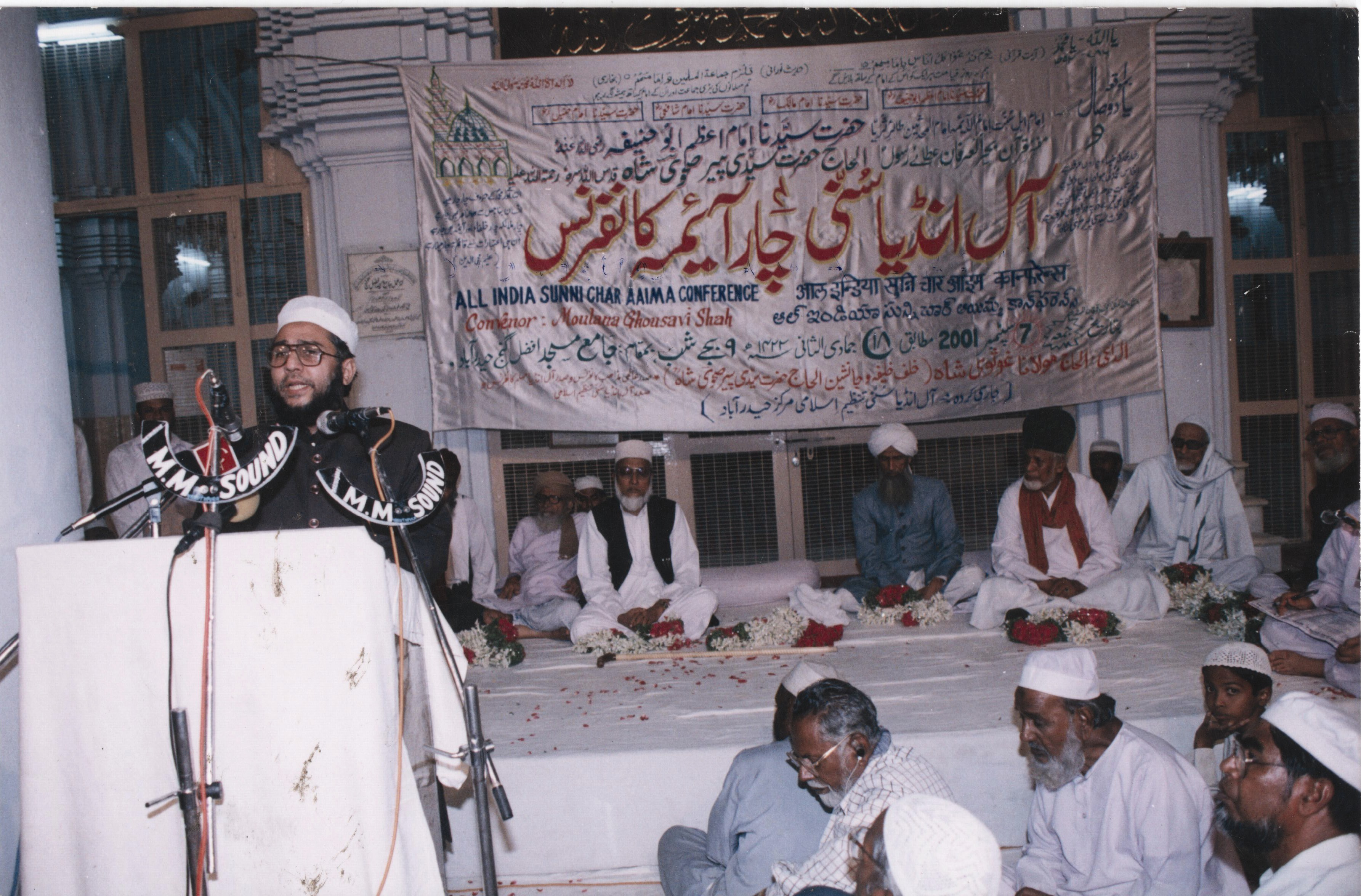 All India Sunni Char Aimma Conference organized by Moulana Ghousa vi Shah(Secretary General: The Conference of World Religions)